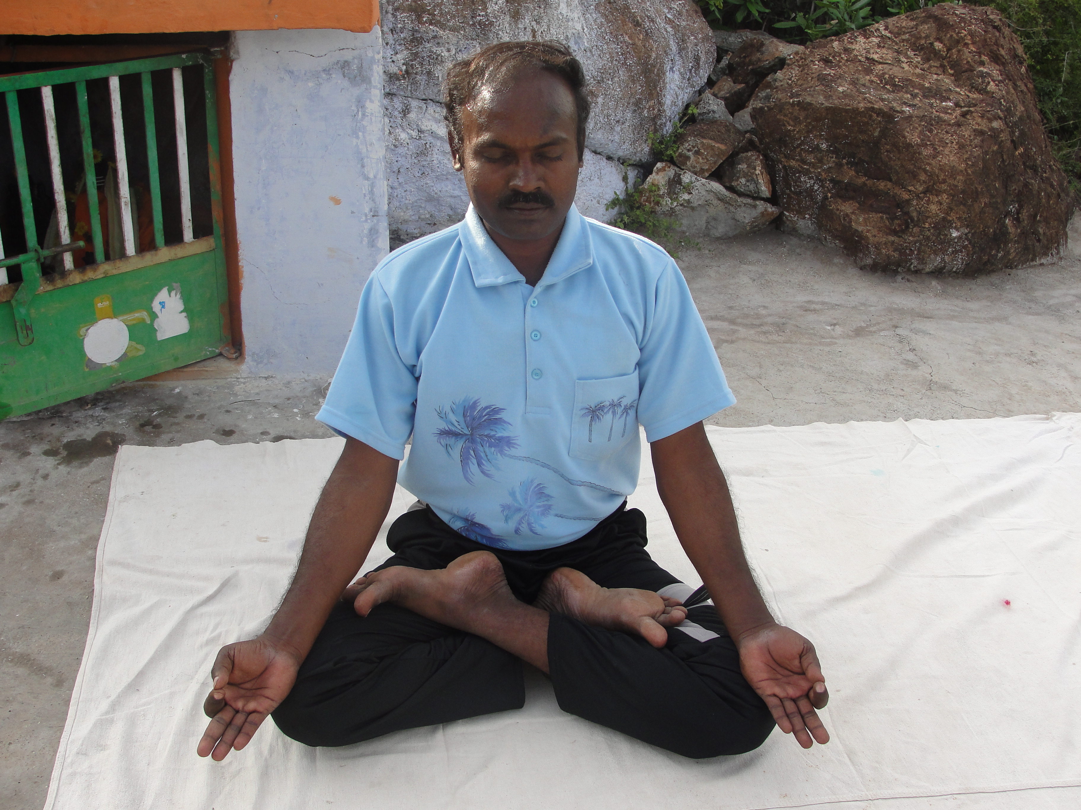 A style of Padmasana